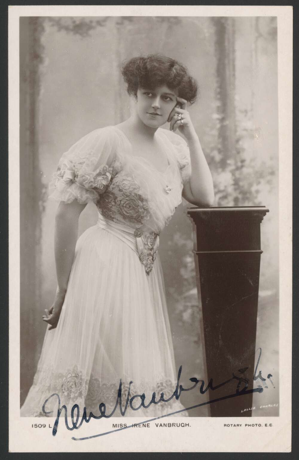 Creator Charles, Lallie, 1869-1919 Title Miss Irene Vanbrugh [picture] / Lallie Charles Call Number PIC Box PIC/9869 #PIC/9869/13 Created/Published [England] : Rotary Photo EC, [190-?] Extent 1 postcard : b&w. ; 13.7 x 8.7 cm. Physical Context PIC Box PIC/9869 #PIC/9869/13-Miss Irene Vanbrugh [picture]